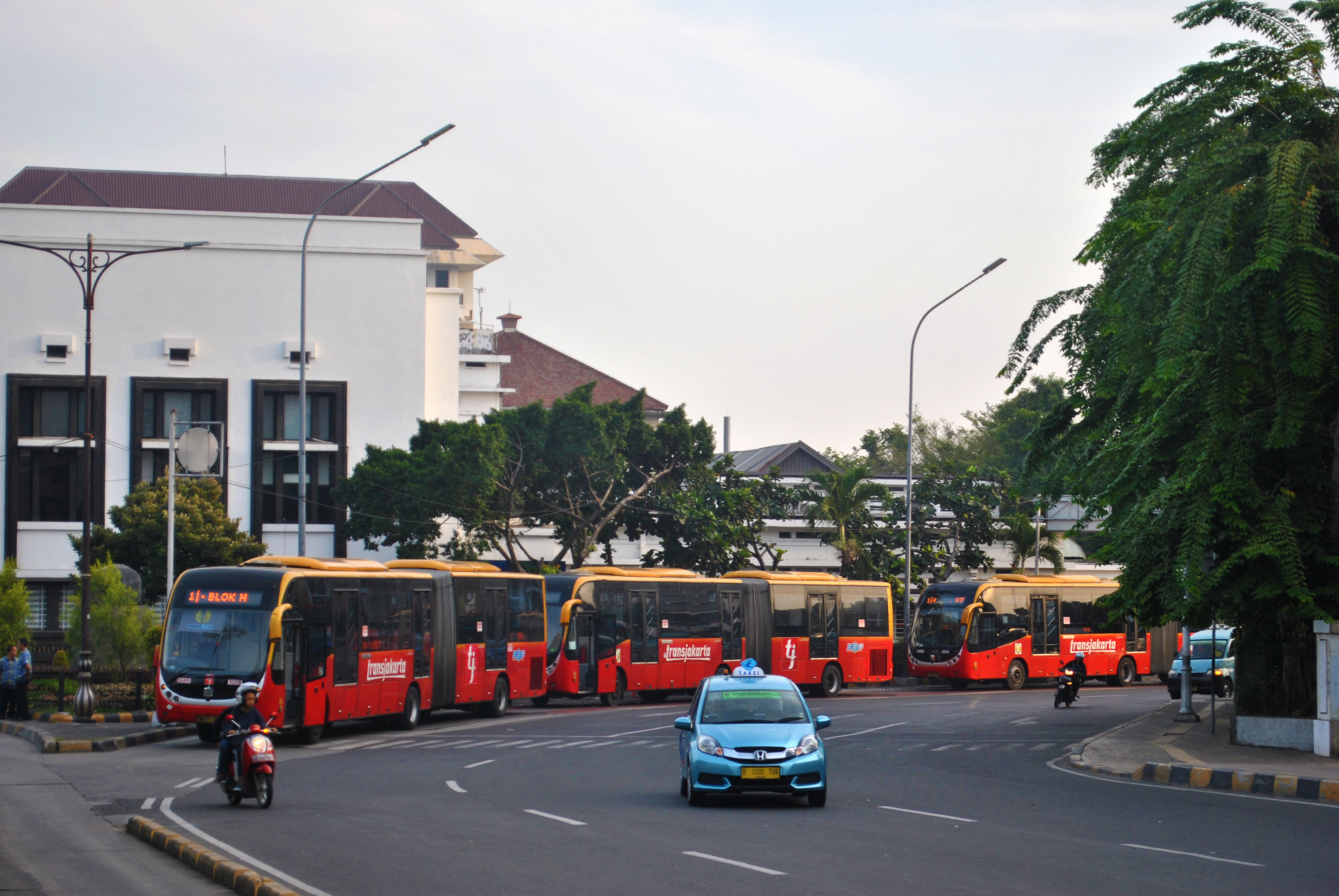 Chinese-built Zhong Tong buses which Governor Basuki Tjahaja Purnama want to get rid from, in favour of locally-built buses from Mercedes-Benz, Scania, Hino and Toyota. There, Zhong Tong bus' reputation is ruined by frequent reliability issue. Bus Zhong Tong buatan RRT yang hendak disingkirkan Gubernur Basuki Tjahaja Purnama dan diganti dengan bus rakitan lokal bersasis Mercedes-Benz, Scania, Hino dan Toyota. Reputasi bus Zhong Tong rusak oleh masalah keandalan.